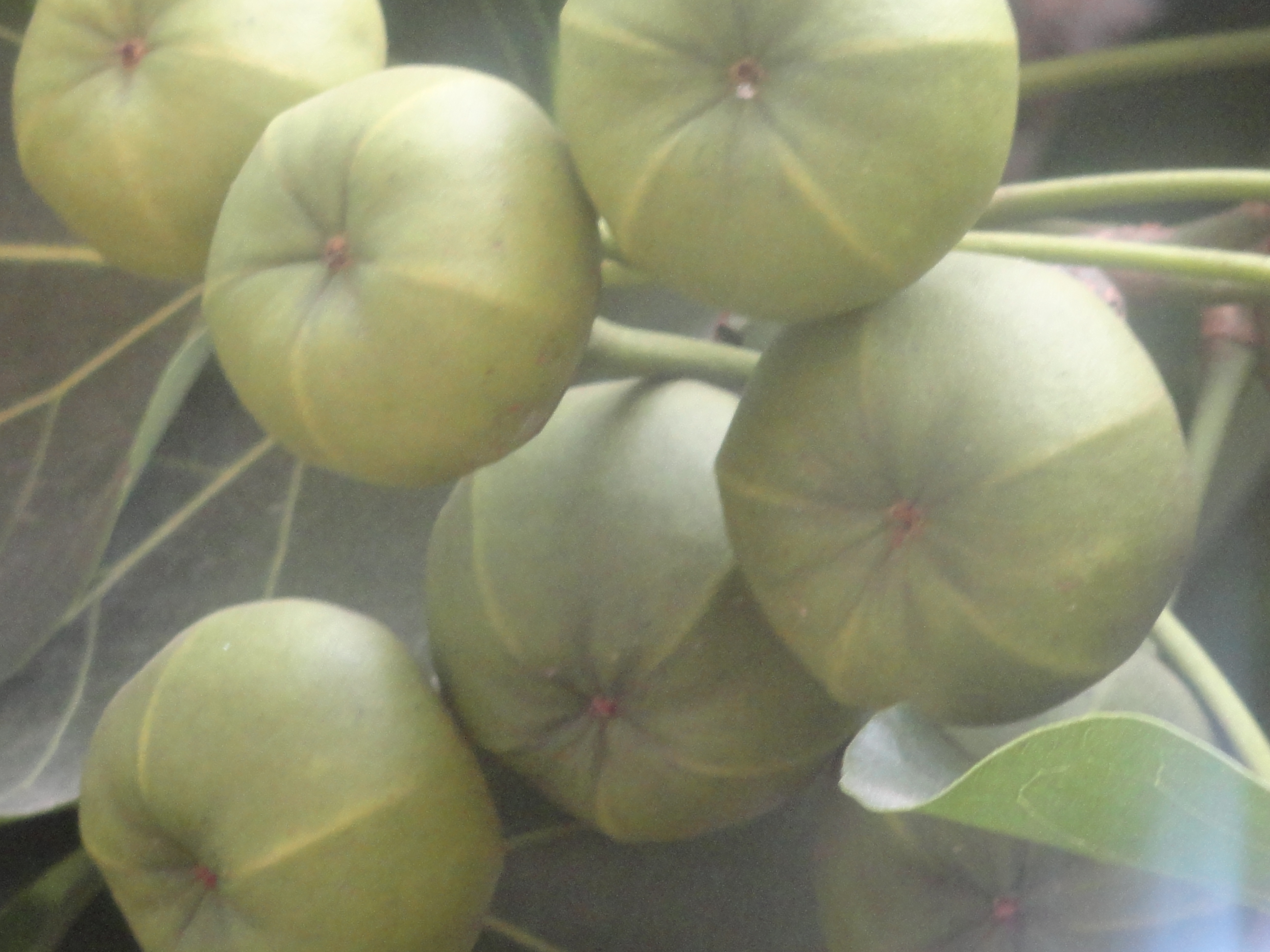 గంగరావి కాయలు